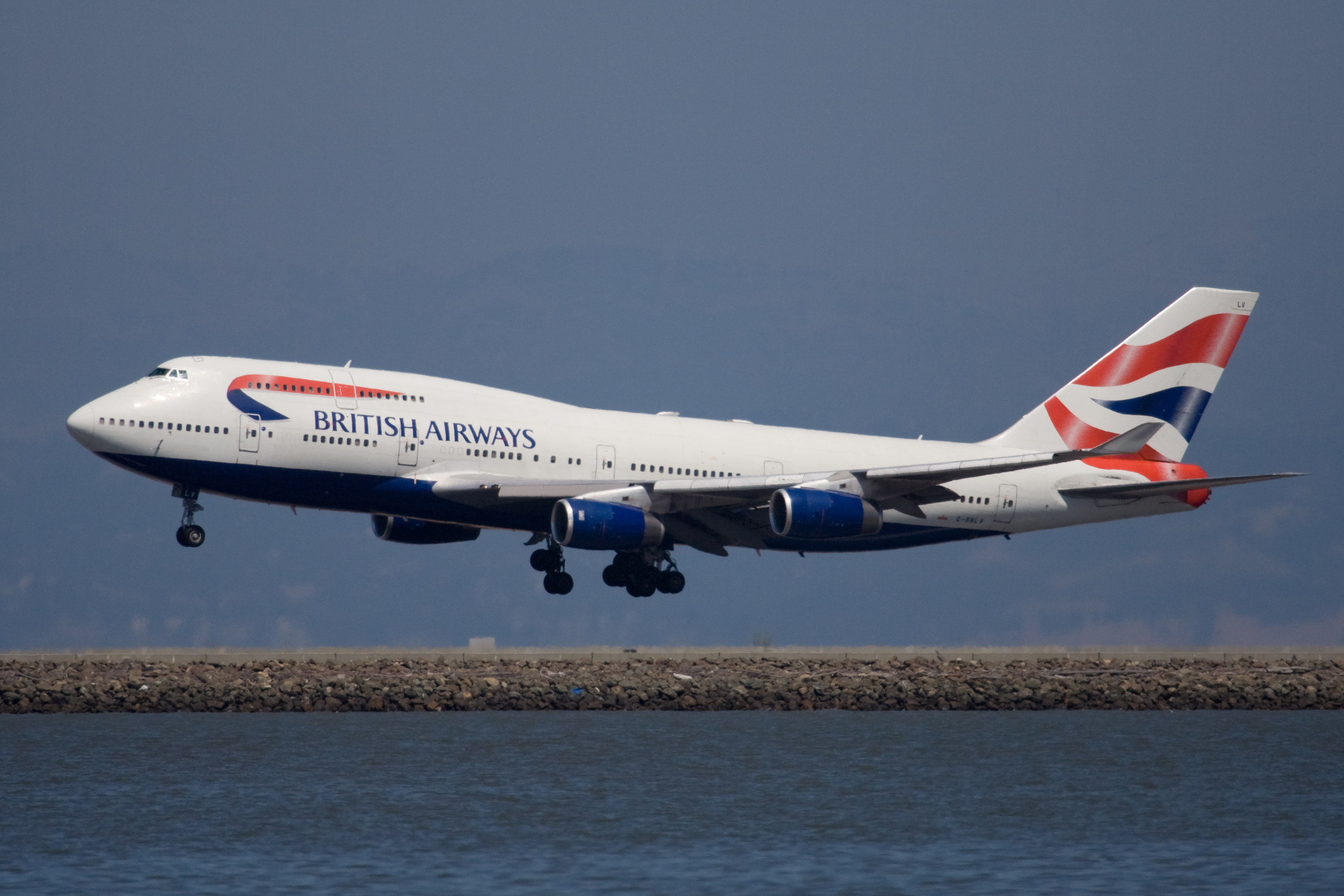 British Airways 747 about to touch down on 28L